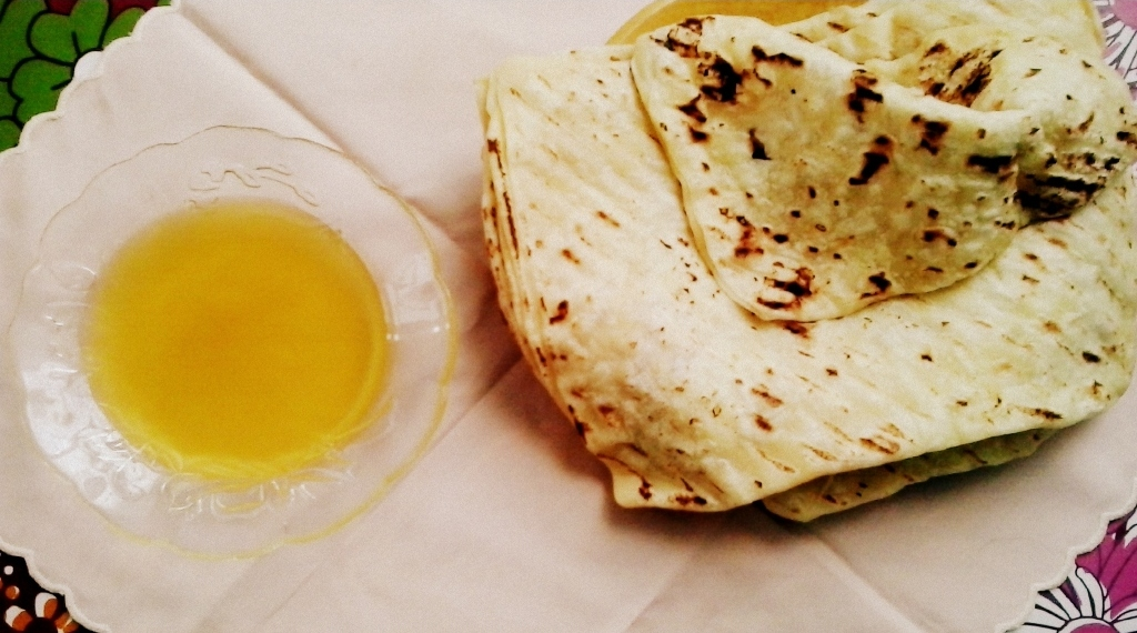 a very good Tunisian breakfast. This is an image of food from Tunisia